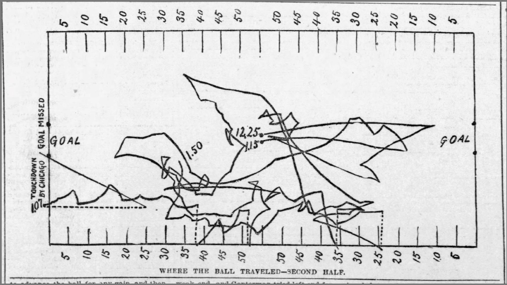 Where the ball traveled in the second half of the Chicago Athletic Association versus Boston Athletic Association football game on Thanksgiving Day of 1895